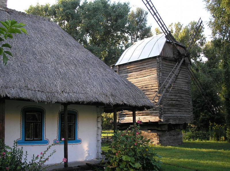 Museum of folk architecture in Sloboda Ukraine. Village Prelesne. Donetsk region. Ukraine.